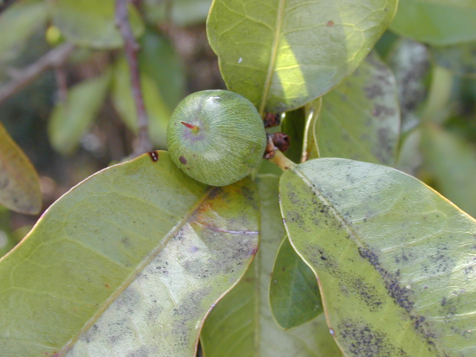 Sideroxylon persimile (fruit). Location: Maui, Maunaolu